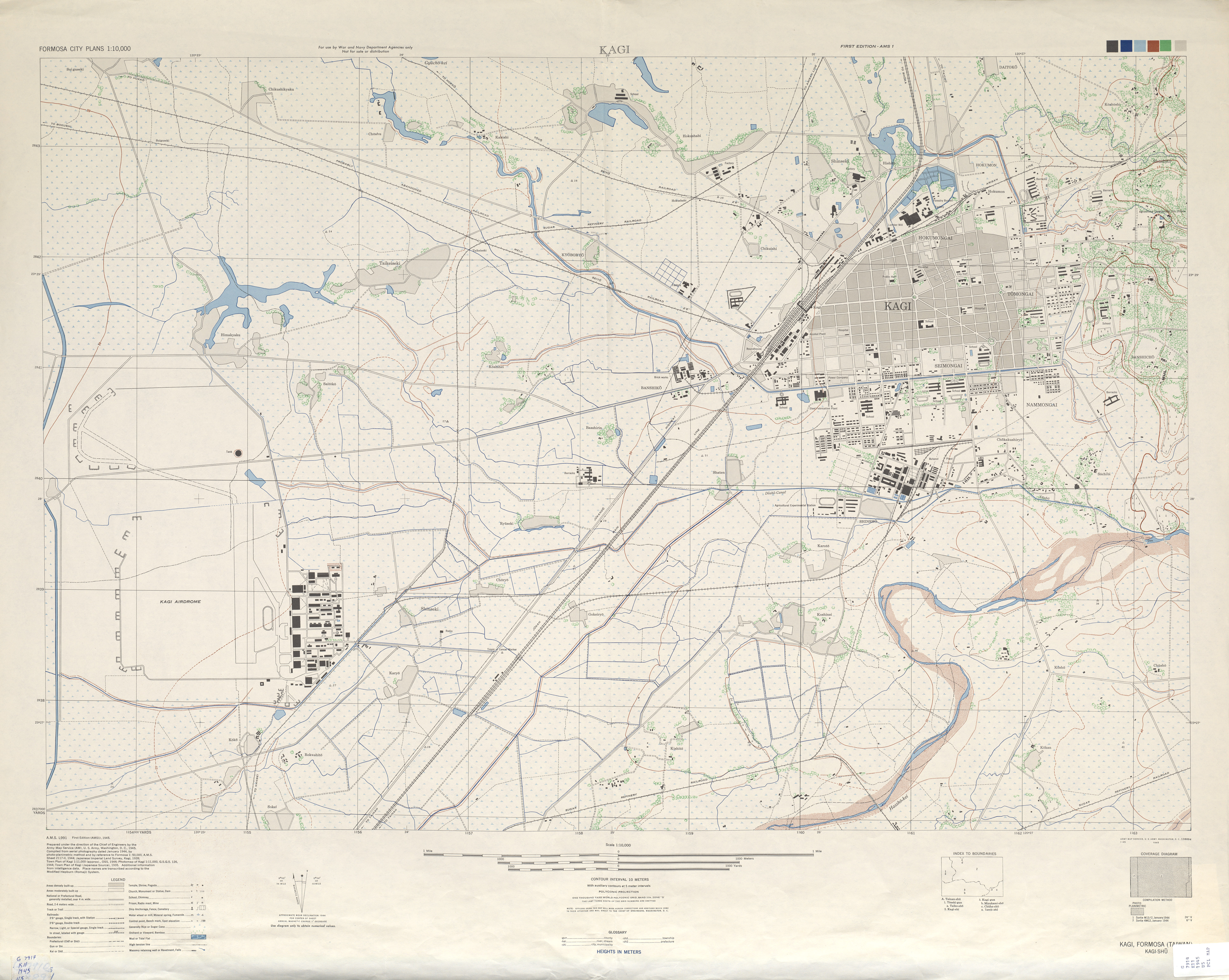 A.M.S. L991 First Edition (AMS1), 1945. Prepared under the direction of the Chief of Engineers by the Army Map Service (AM), U. S. Army, Washington, D. C., 1945. Compiled from aerial photography dated January 1944, by photo-planimetric method and by reference to Formosa 1: 50,000, A.M.S. Sheet 2117-11, 1944; Japanese Imperial Land Survey, Kagi, 1928; Town Plan of Kagi 1:11,000 (approx)., OSS, 1944; Photomap of Kagi 1:11,000, G.S.G.S. 126, 1944; Town Plan of Kagi (Japanese Source), 1935. Additional information from intelligence data. Place names are transcribed according to the Modified Hepburn (Romaji) System.